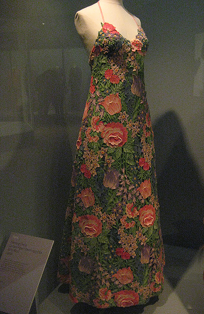 Evening dress of green, pink and blue machine lace over green silk organza. Designed by Gerard Pipart for Nina Ricci, 1968. Example from the V&A fashion gallery. The V&A is notable for its range of exhibits, not only paintings and sculpture, but also examples of more popular crafts such as photography, jewellery and, as here, clothes design. This dress was designed by Gerard Pipart . It is remarkable for its raised texture and a design somewhat reminiscent of the Arts and Crafts fabrics and wallpapers of William Morris. The comprehensiveness of the V&A is underlined by the proximity of this gallery to others where "high arts" from Europe and Asia are on display.